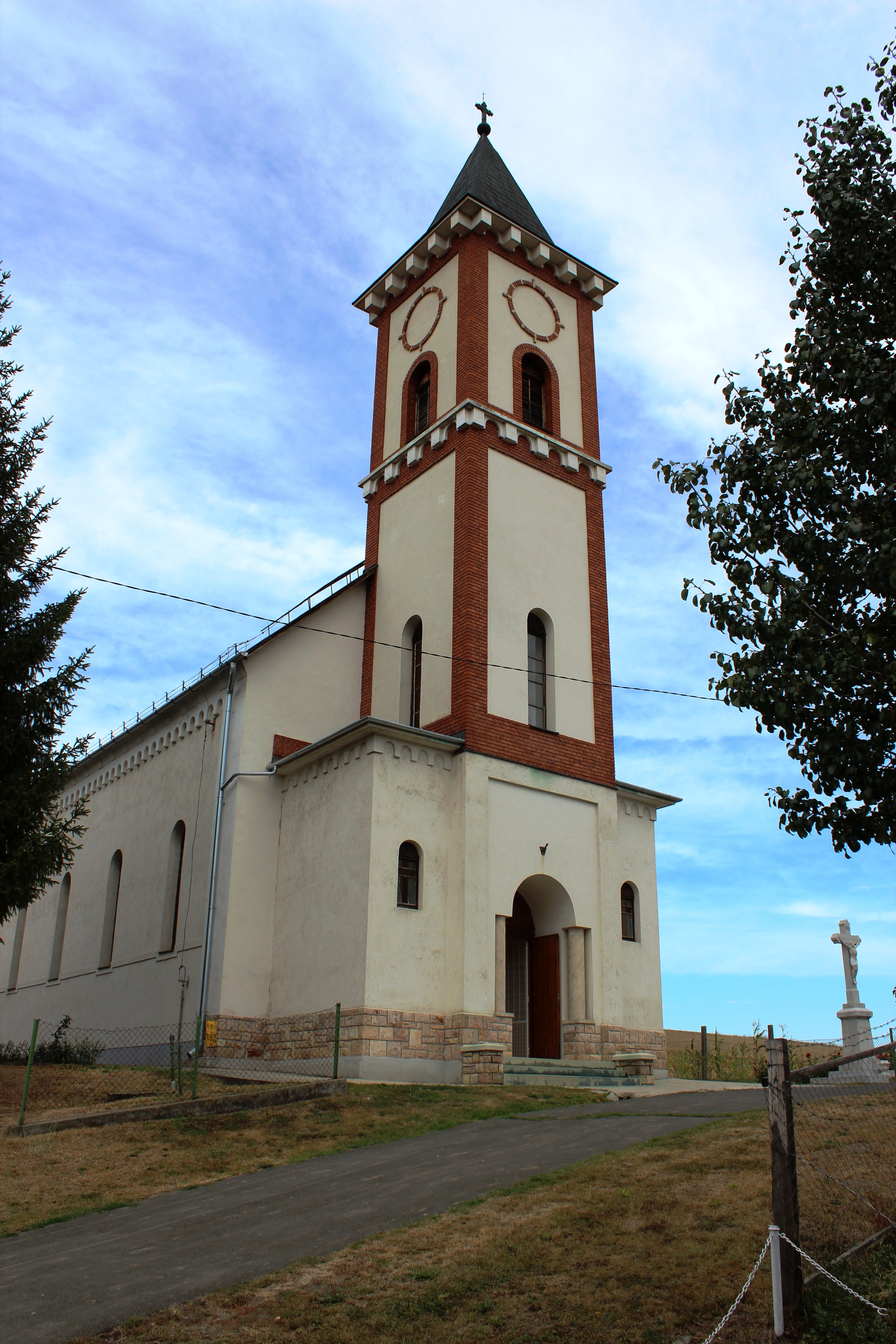 Saint Martin Church in Nagybárkány, Hungary